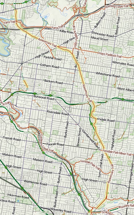 Map of the Anniversary Trail. Cartography by Steve Bennett, data by OpenStreetMap contributors.